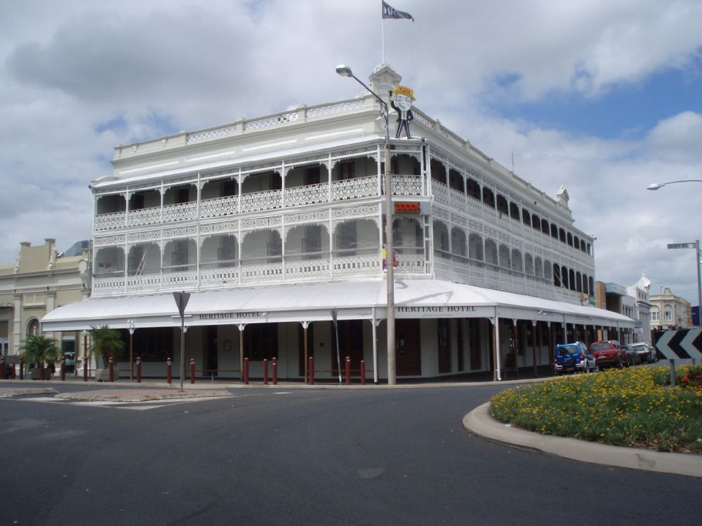 Commercial Hotel and Chambers (former), from N (2009), now Heritage Tavern, Rockhampton